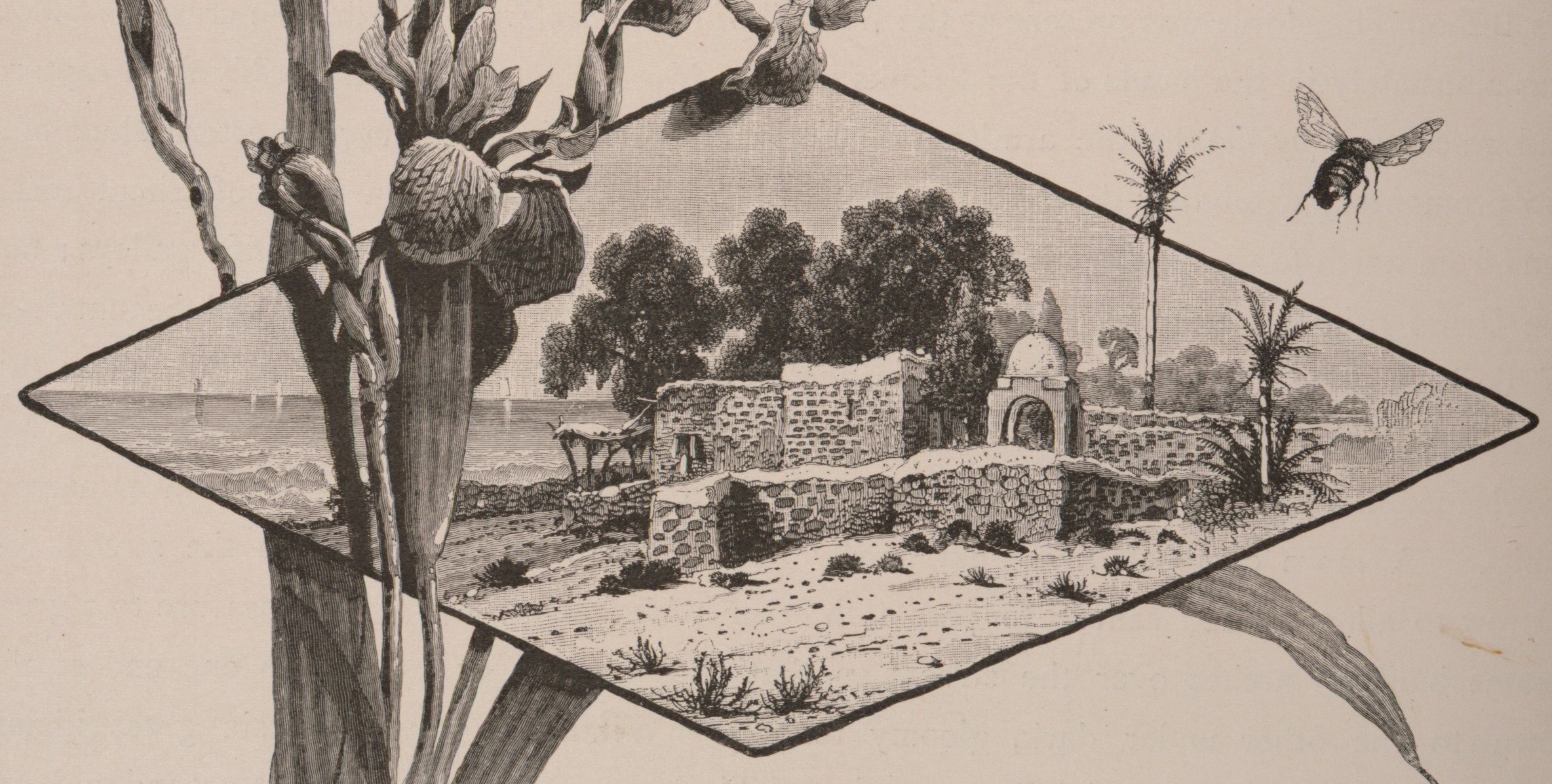 Colonel Wilson, ed.